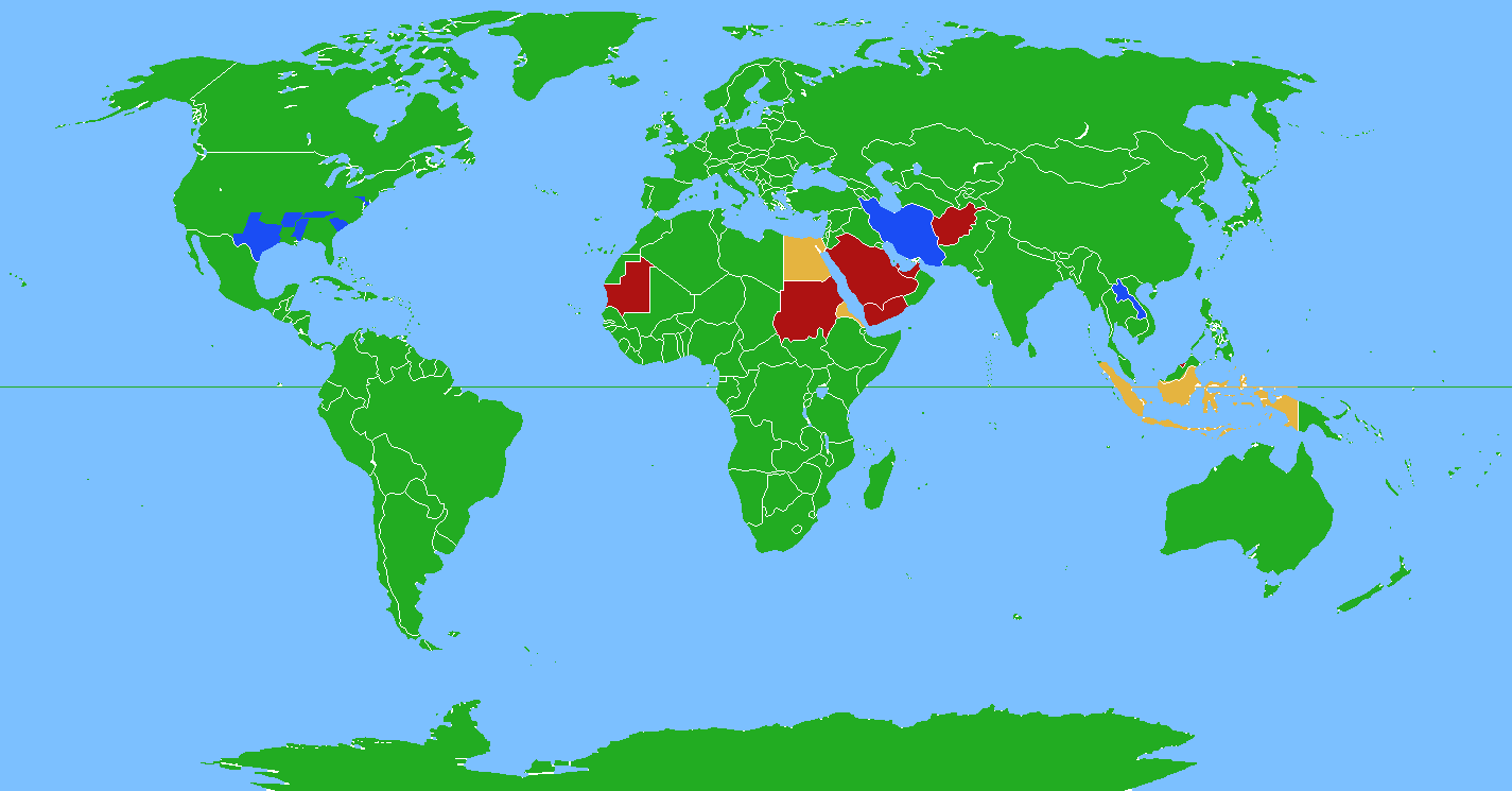 Data from "Laws Criminalizing Apostasy in Selected Jurisdictions" by Law Library of Congress